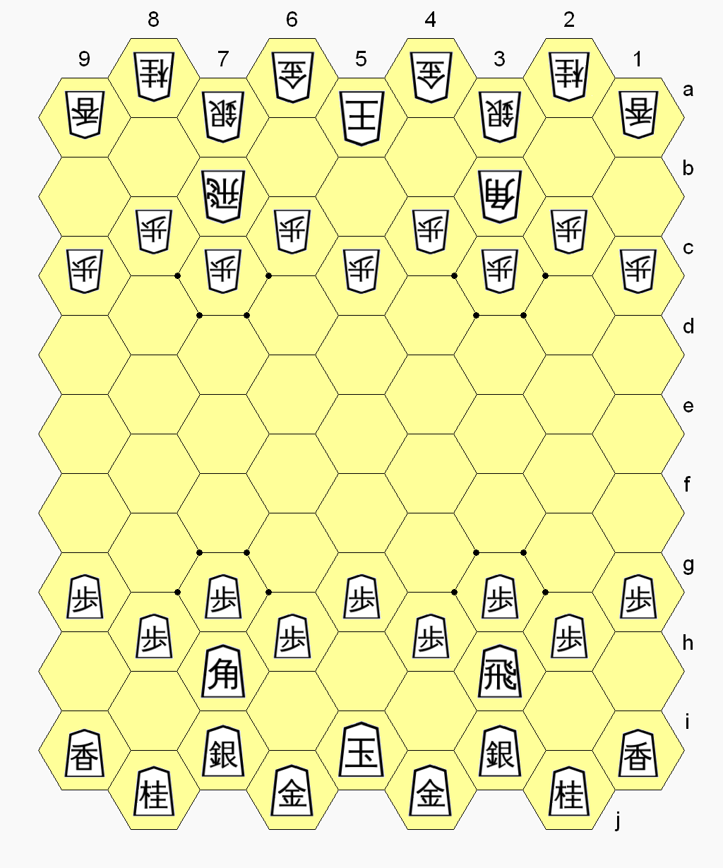 Hexshogi starting position. Using shogi pieces by User:Perey (Shogi.svg), but modified. All done in MS PAINT.